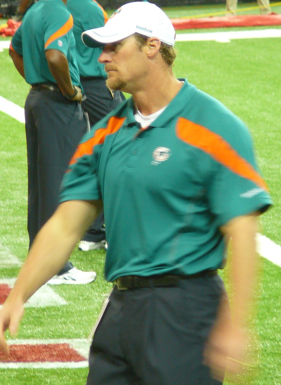 If used somewhere other than Wikipedia, Nelson, by name.